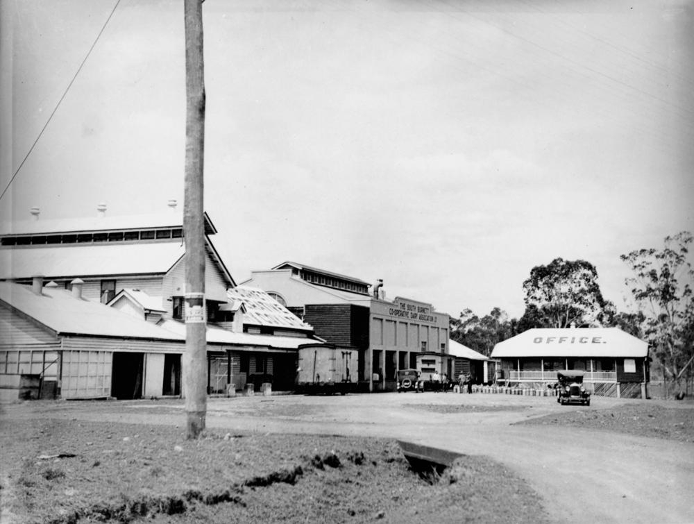 South Burnett Cooperative Dairy Association Ltd. Murgon circa 1935